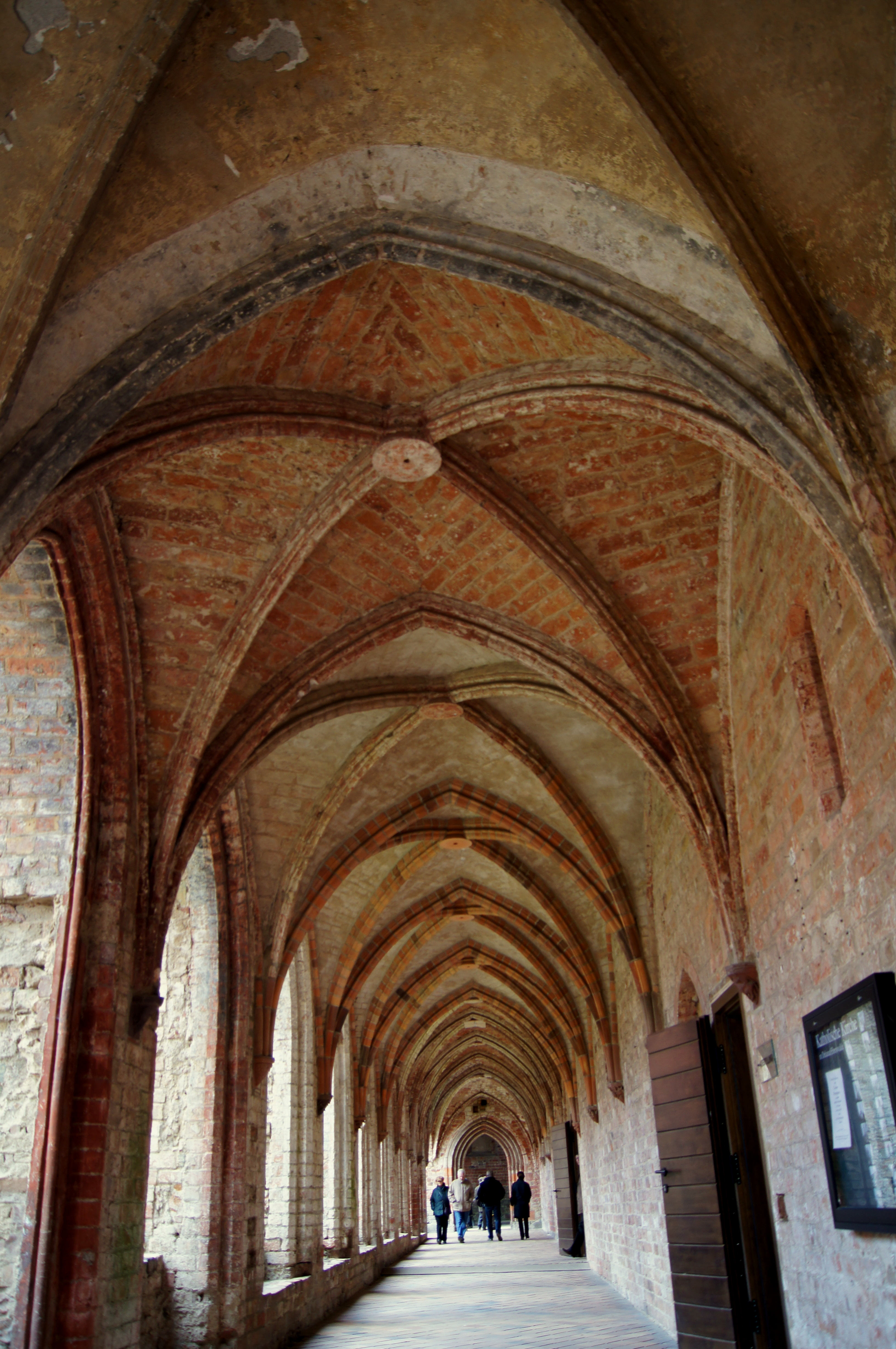 Cloister Chorin, Brandenburg, Germany Brick Gothic rib vaults.